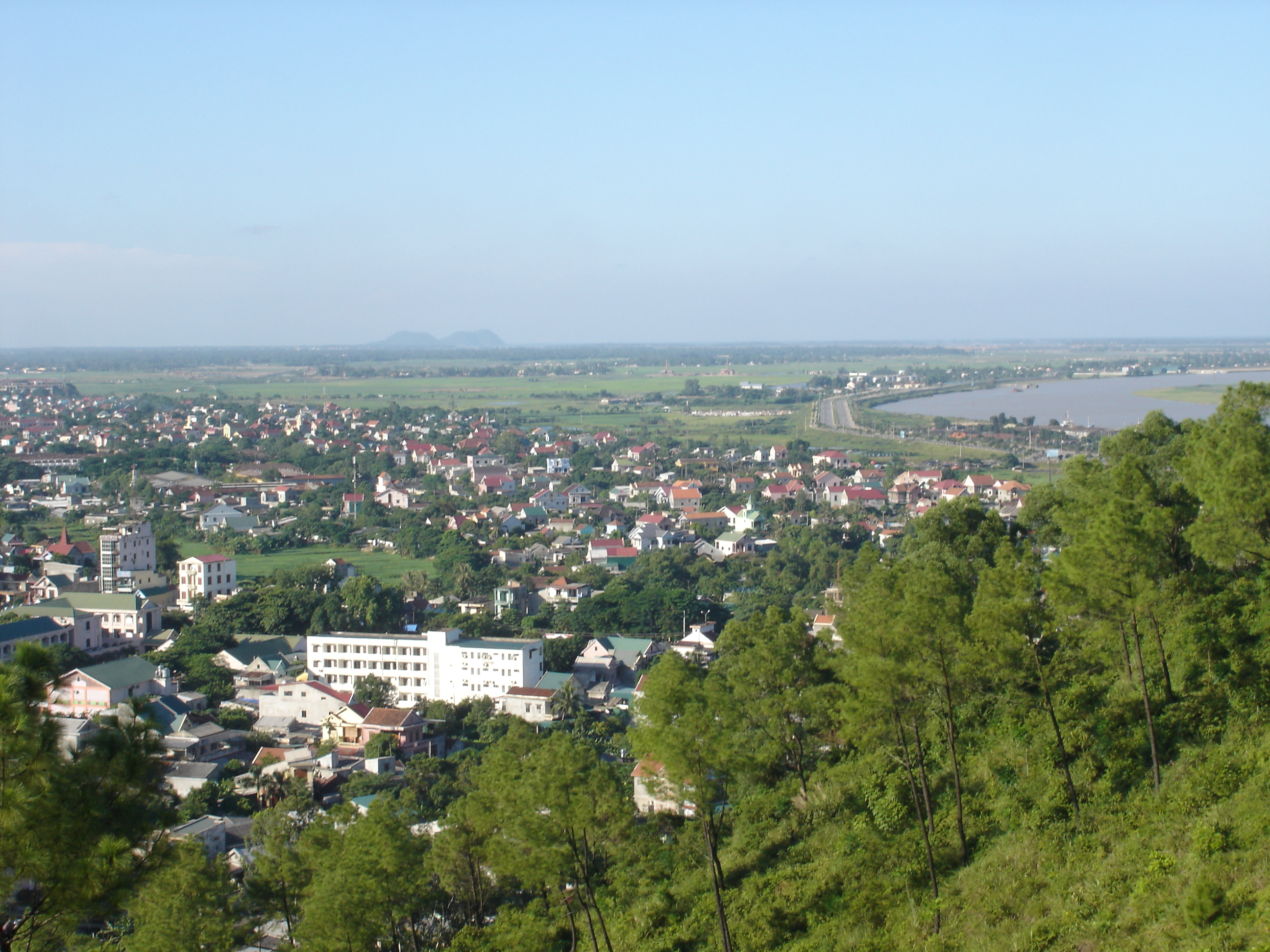 Vinh city view from Quyet mountain